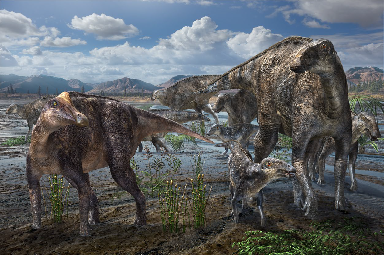 Life reconstruction of lambeosaurine-hadrosaurine co-occurrence based on the Liscomb Bonebed hadrosaurids.